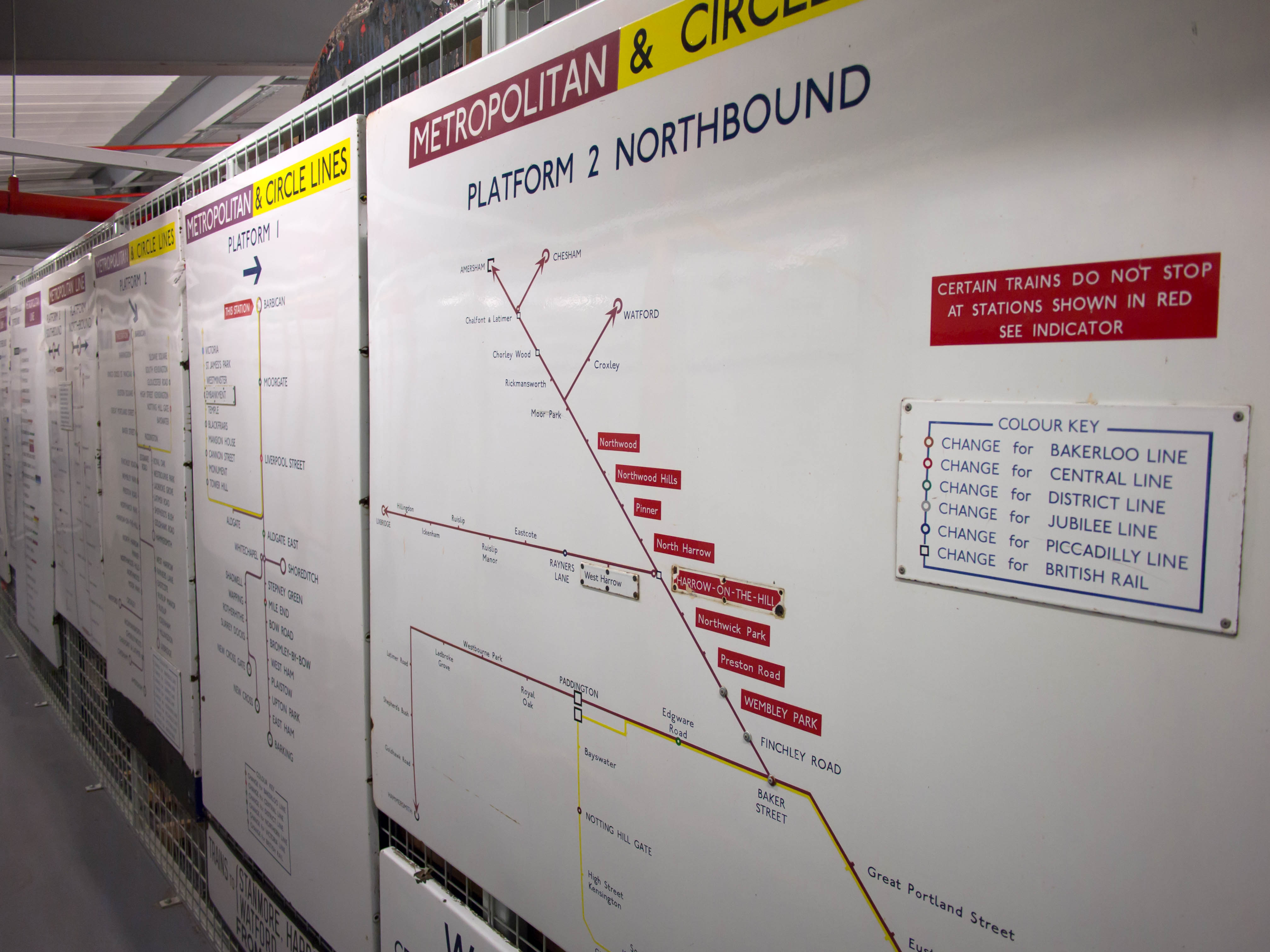 Acton Depot open day, March 2012